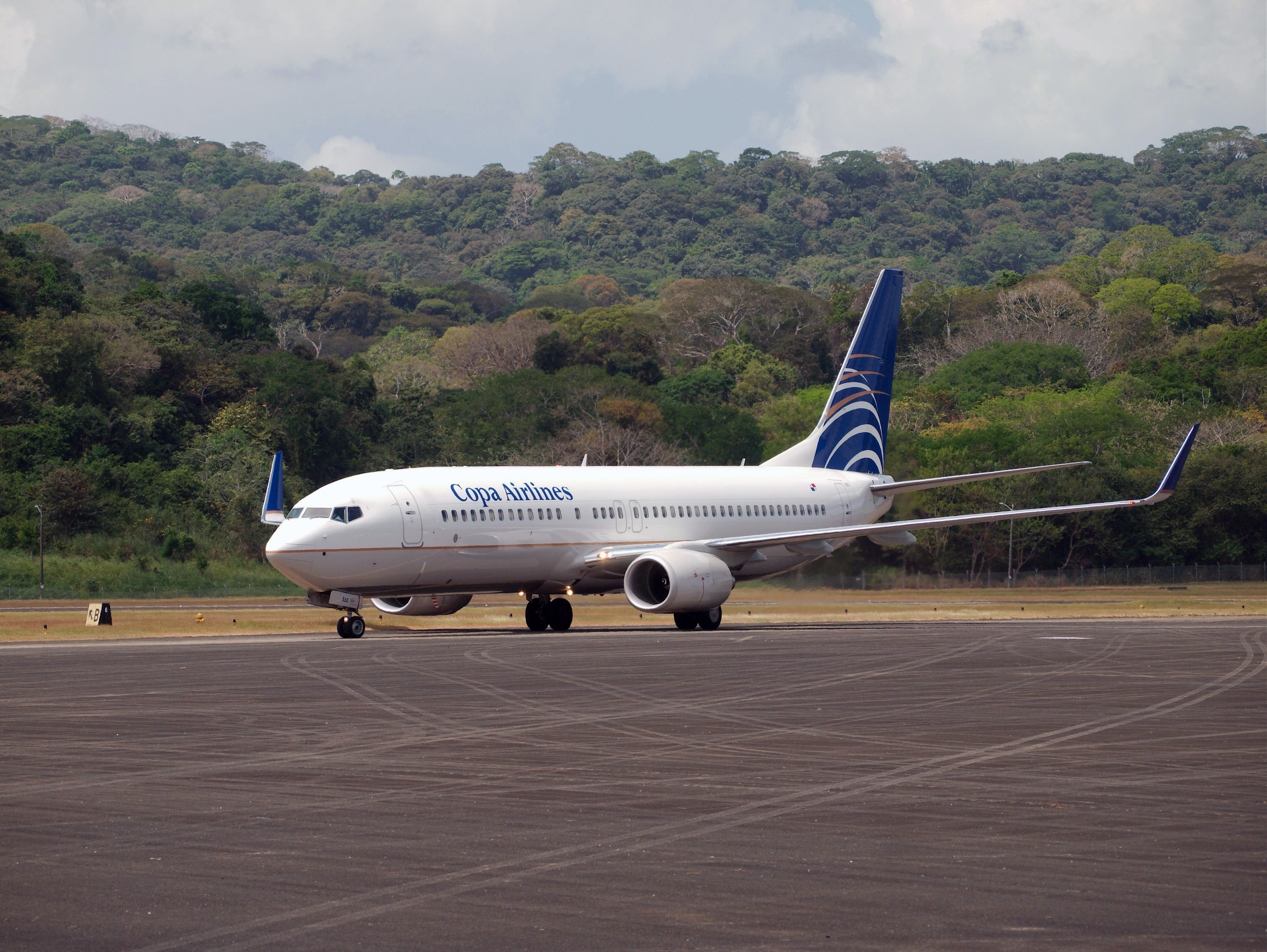 Boeing 737-800 of Copa Airlines at Howard AFB, Panama City, Panama. Taken 01/29/2012 at Panama Air Show 2012. Registration HP-1721CMP